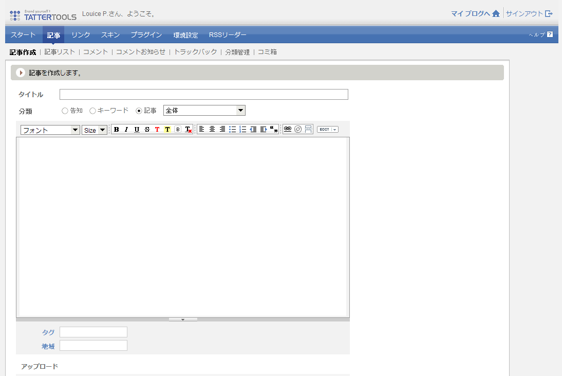 Tattertools Administrator Screenshot